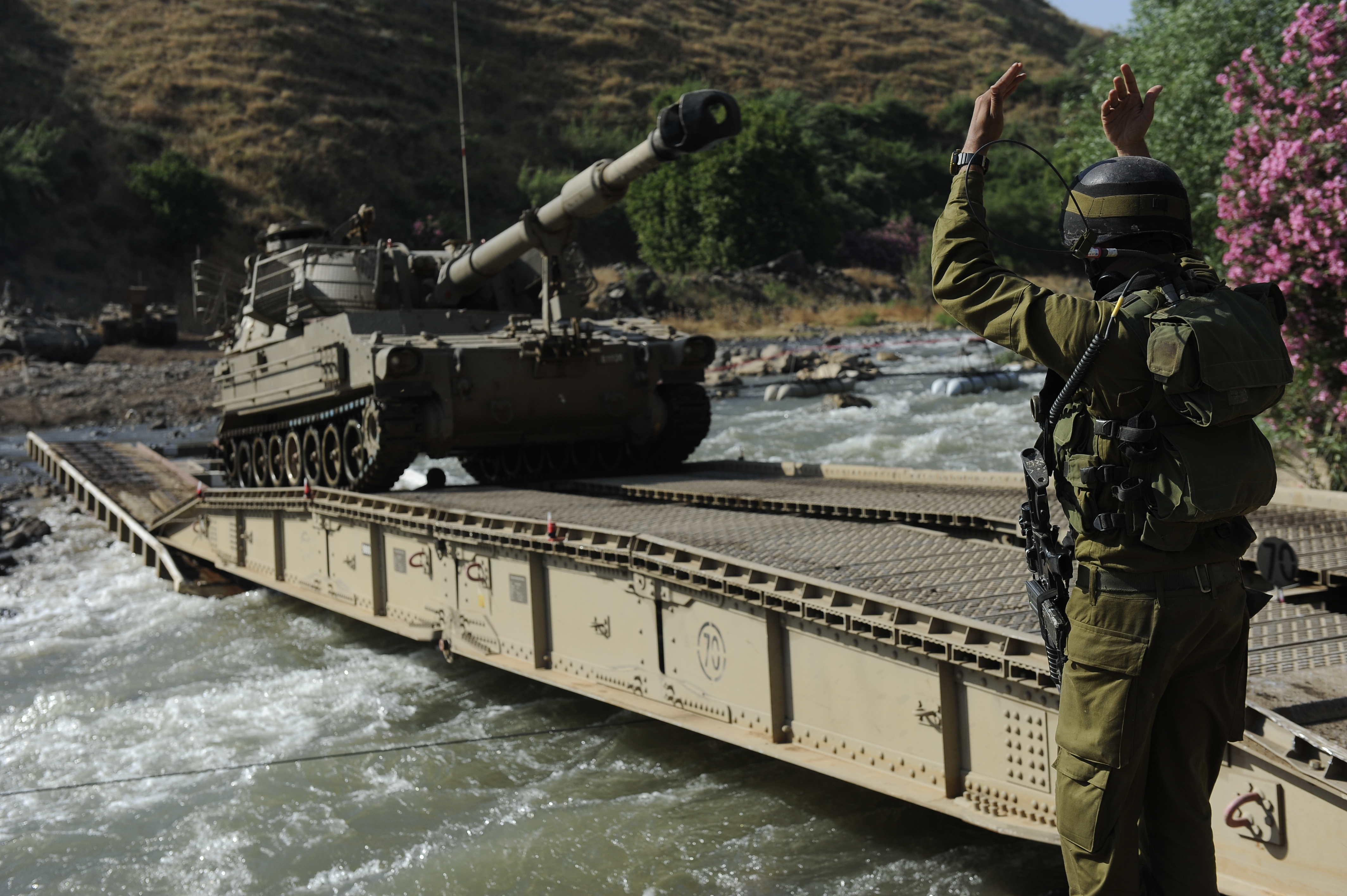 Soldiers from the Combat Engineering Corps construct a crossing for tanks over the Jordan River. The Israel Defense Forces Facebook • blog • Twitter Photo by Cpl. Shay Wagner, IDF Spokesperson's Unit